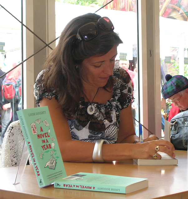 Louise Doughty signing her book at the Edinburgh International Book Festival 2008